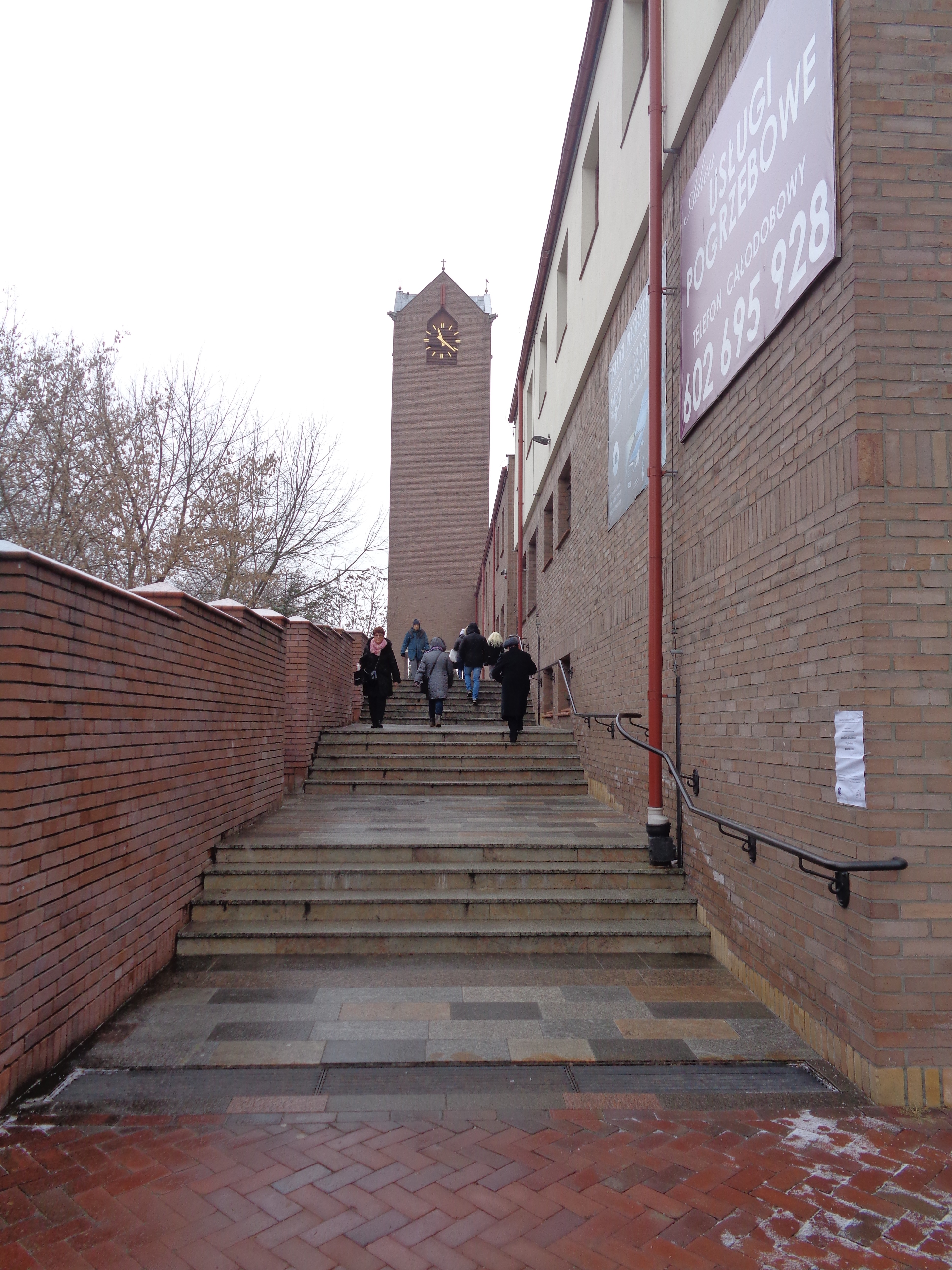 Clock's Tower of Pentecost Church in Warsaw.